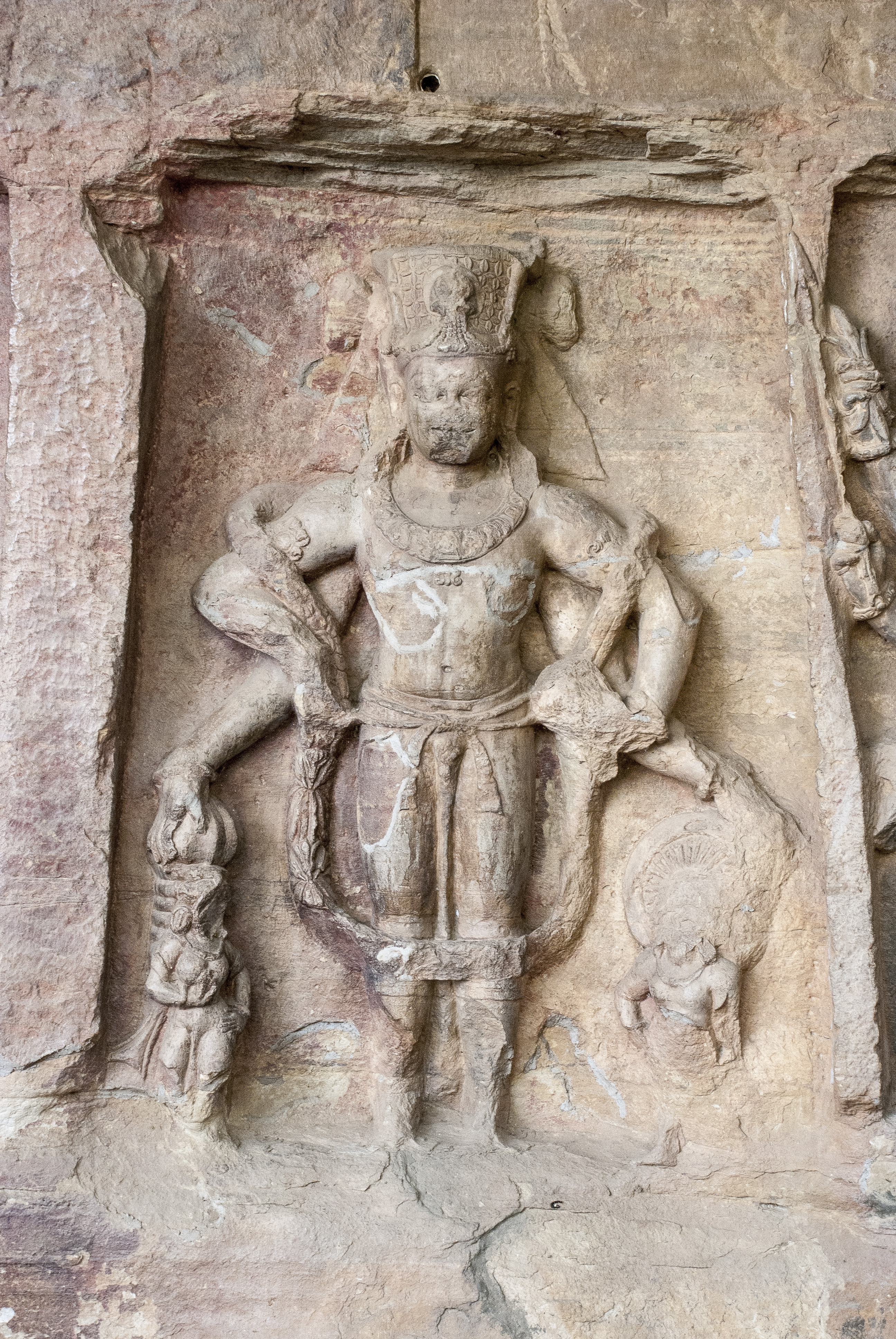 Details on Cave 6